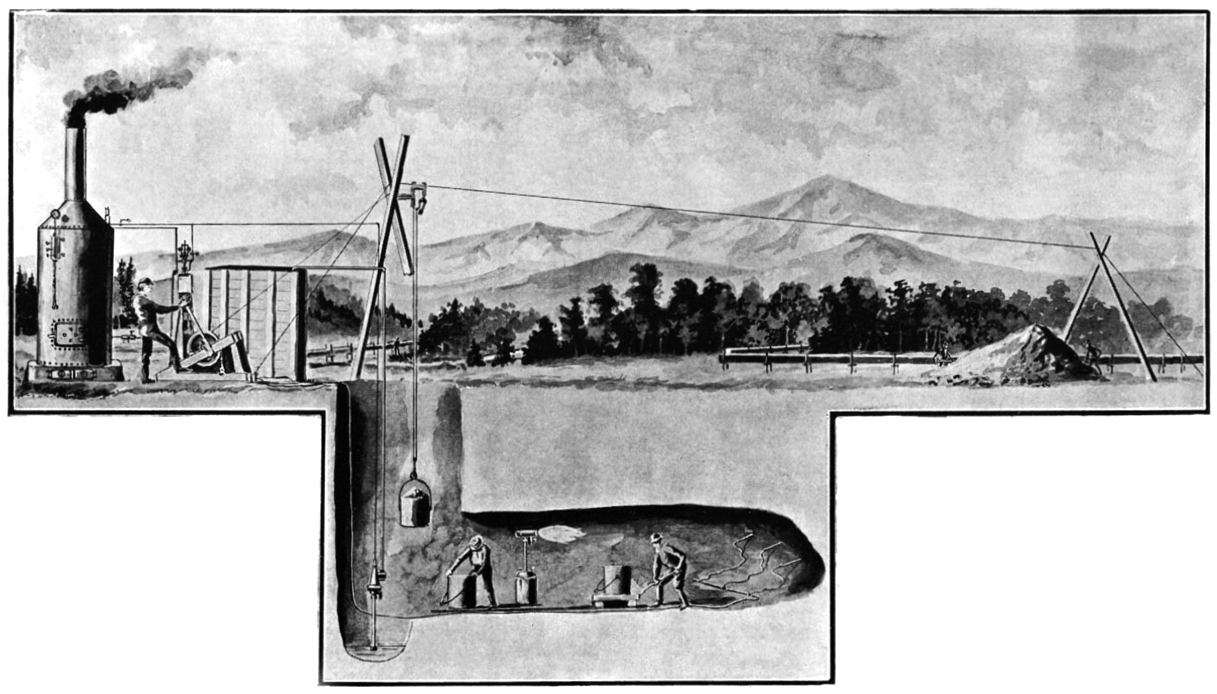 Pulsometer steam pump as drainage pumpm in an Alaskan mine. 1900. From The Argus (Seattle).